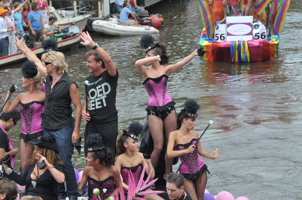 Hans Klok (illusionist and magician) and Gerard Joling (entertainer).